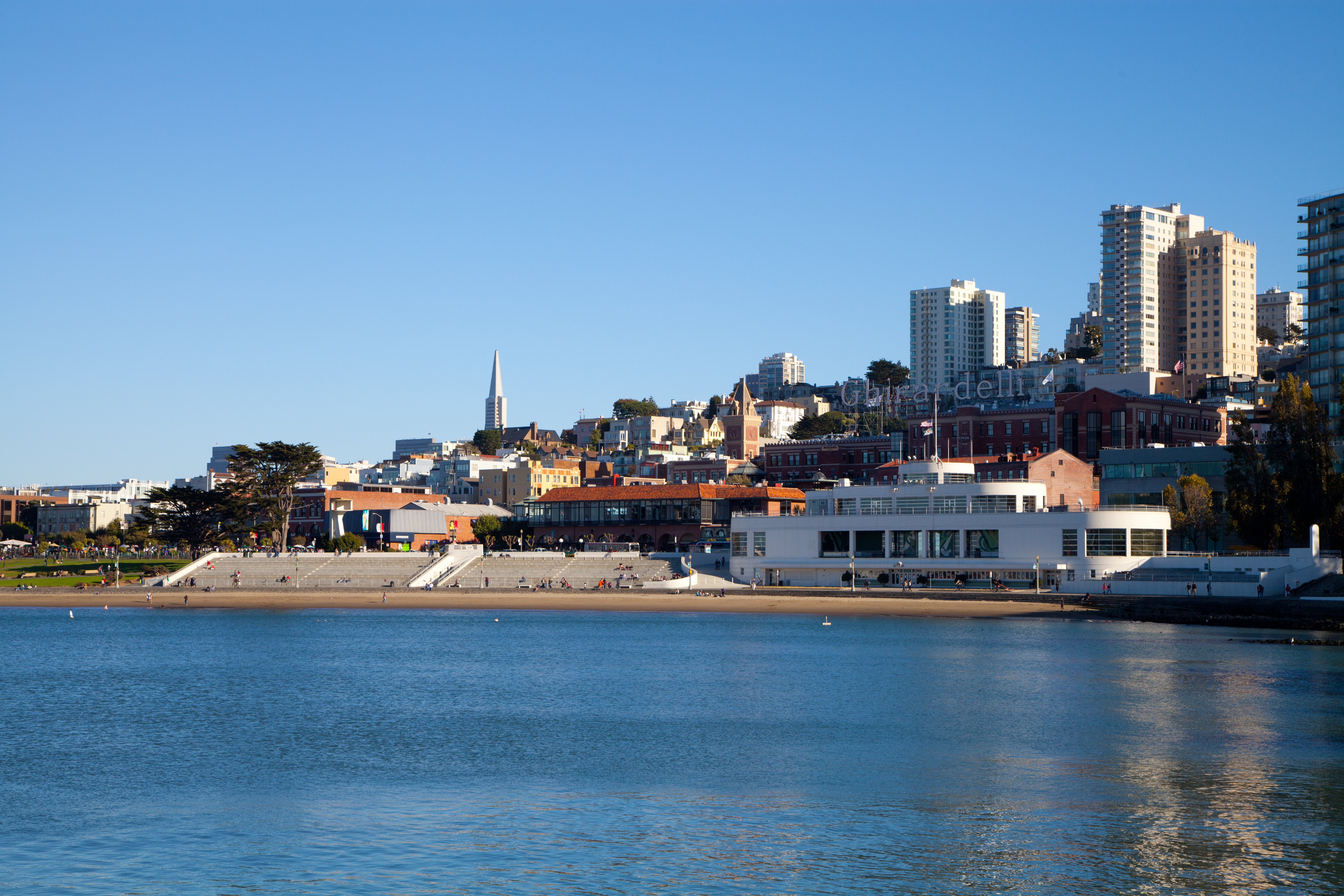 Aquatic Park Historic District